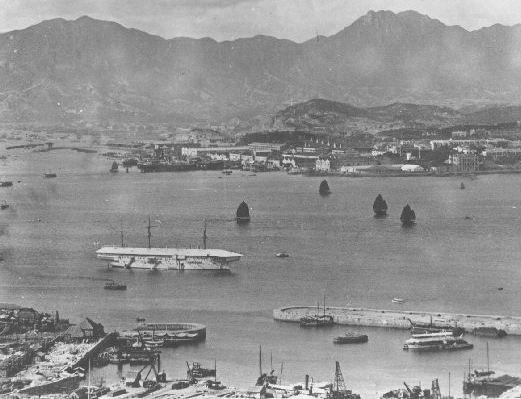 HMS "Tamar", is anchored off the British Naval Dockyard, Hong Kong. With its white superstructure, serves as a receiving, or store ship. Photo from 1905 by unknown author, sourced from HK Central Library MMIS